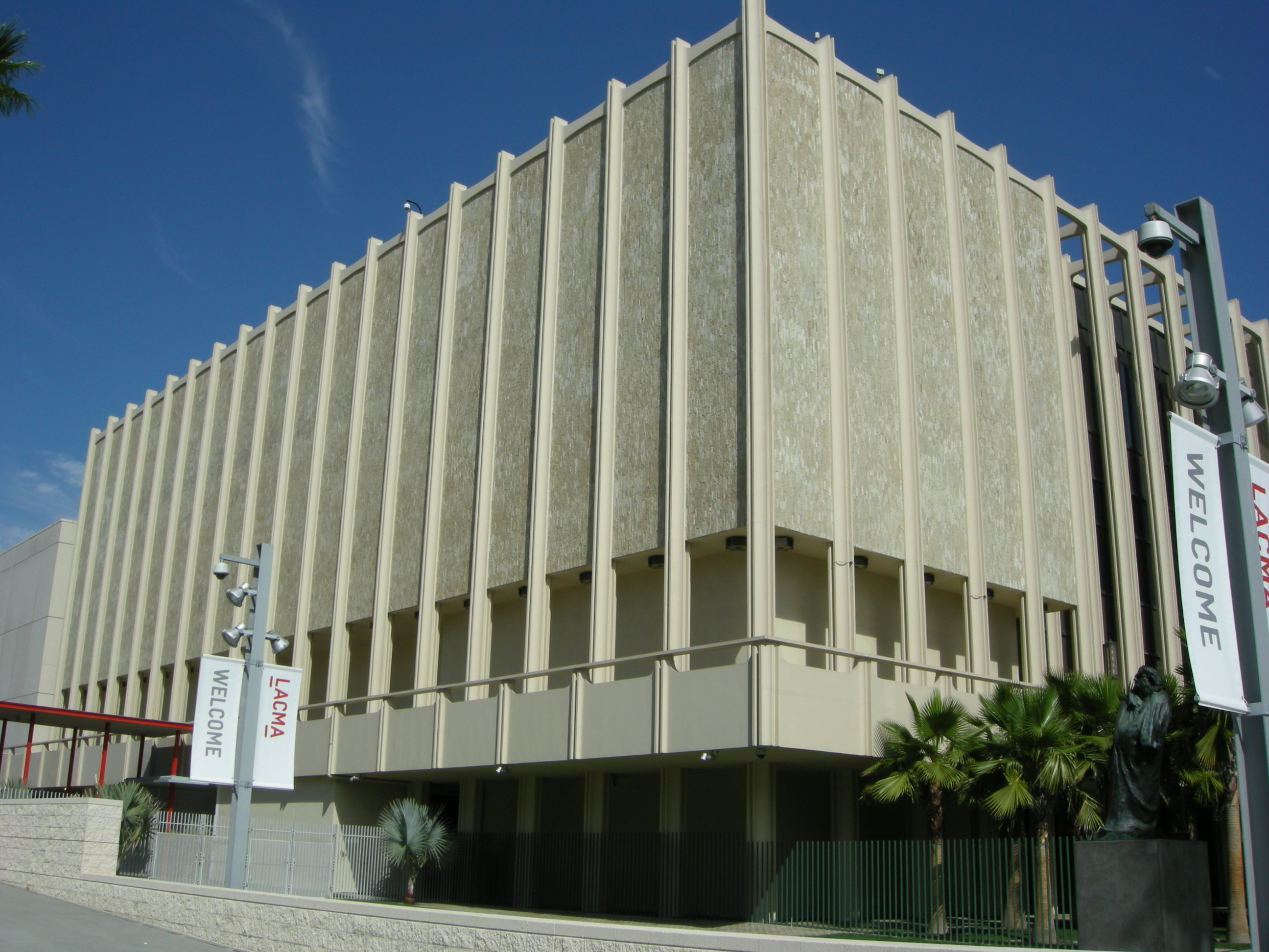 One of the original 1965 buildings of the Los Angeles County Museum of Art.